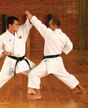 kumite